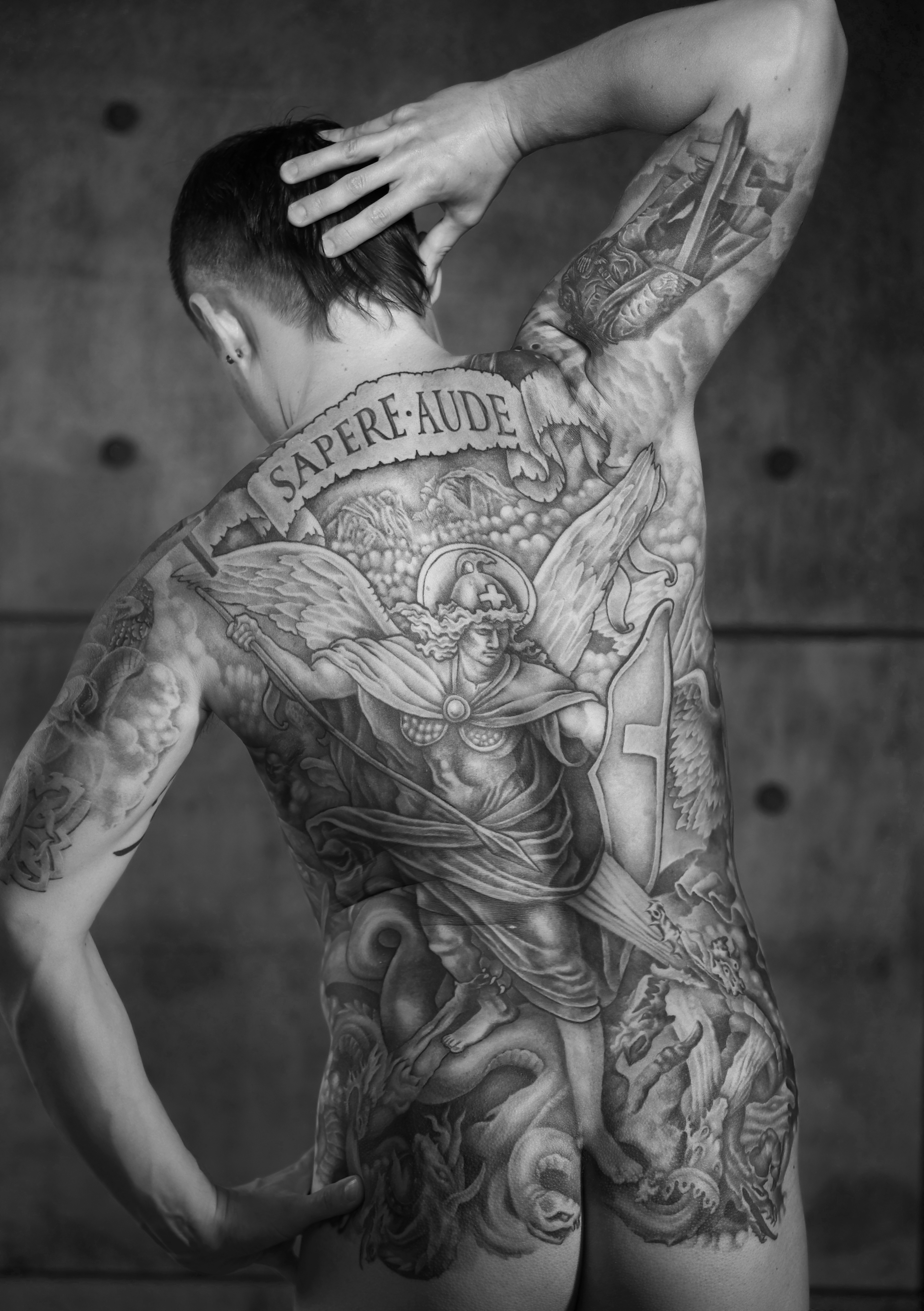 Man with a full back tattoo. Michael and the Dragon. Adapted from Die Bibel in Bildern (Revelation) engraving. Enlightenment motto "Sapere aude" is tattooed in the upper back.